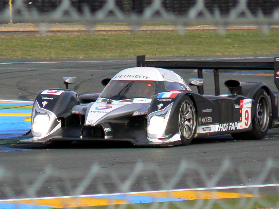 Franck Montagny at the wheel of Peugeot 908 during Le Mans 24 Hours race 2008.